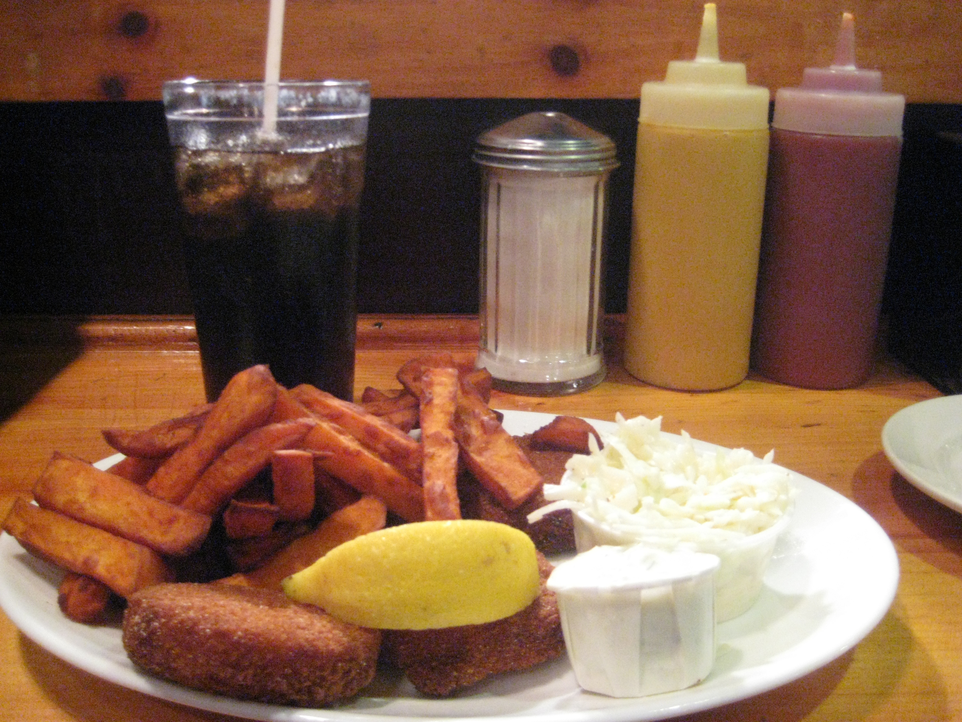 Crab cakes, sweet potato french fries, cole slaw, tartar sauce, Coca-Cola and a wedge of lemon served at Bartley's in Harvard Square, Cambridge, United States.